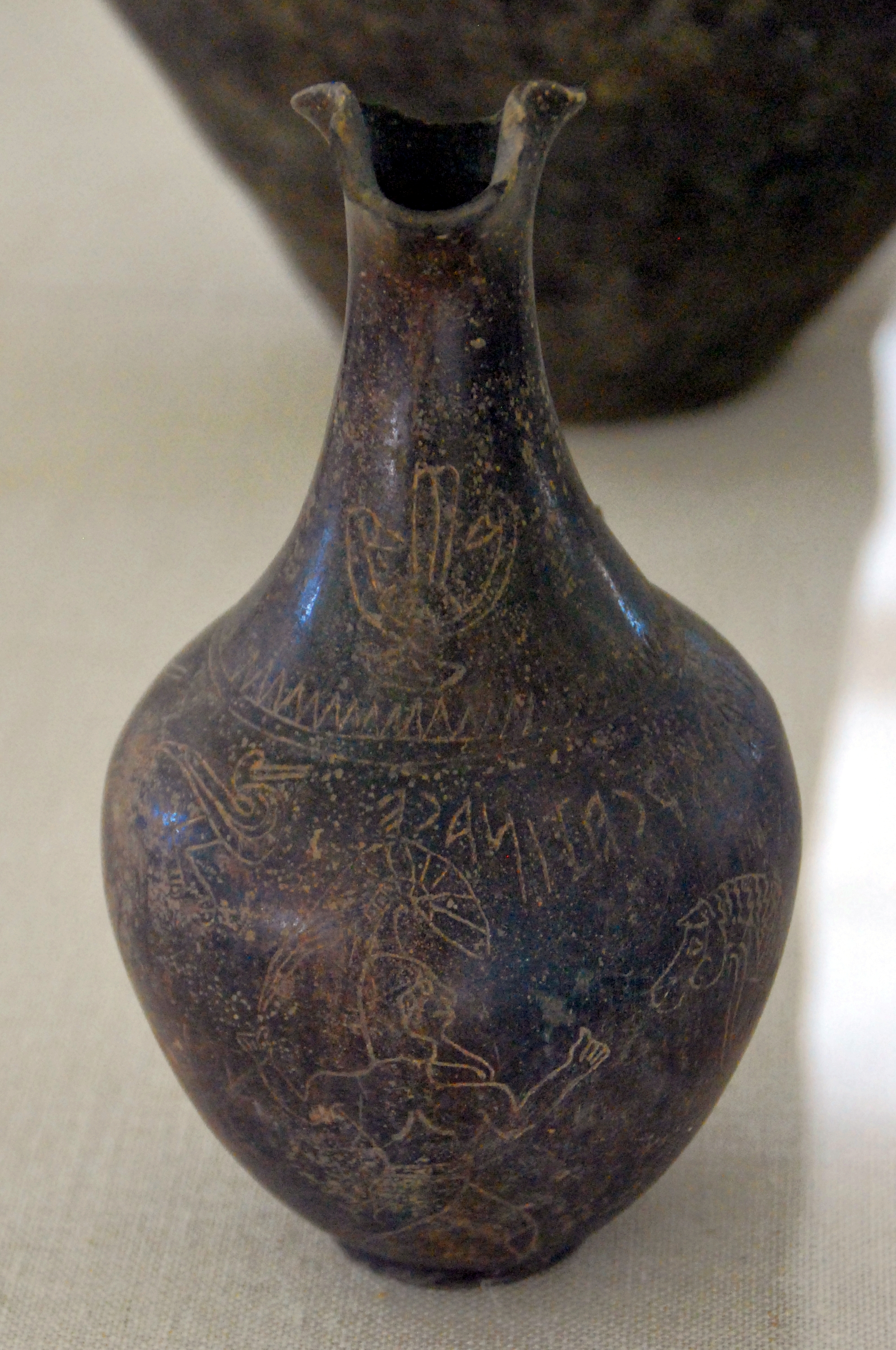 Very fine Etruscan Impasto jug with incised images, imitating phoenician examples from metal, handles missing; phoenician palmette on the neck, belly image shows warrior between a horse and a feeding goat, over them two from right-to-left walking birds as well as the inscription Mi MAMARCE ZINACE, probably a maker's signature of a potter Mamarce; about 640/20 BC; now Antikensammlung Würzburg, inventory number H 5724.